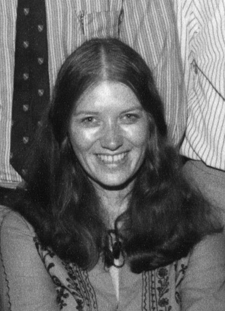 The first Northern Territory Legislative Assembly, 1976. In the back row, from left to right: Ron Withnall, Grant Tambling, Milton Ballantyne, Eric Manuel, Marshall Perron, Ian Tuxworth, Nick Dondas, Roger Steele. Middle row: Hyacinth Tungatalum; Roger Vale; Roger Ryan; Paul Everingham; Dave Pollock; Rupert Kentish. Front row: Geoff Letts; Dawn Lawrie; Les MacFarlane; Liz Andrew; Jim Robertson. Eric Manual replaced Bernie Kilgariff in the 1976 Alice Springs by-election.